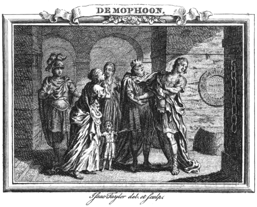 Metastasio - Demophoon - Hoole Vol.2 - London 1767